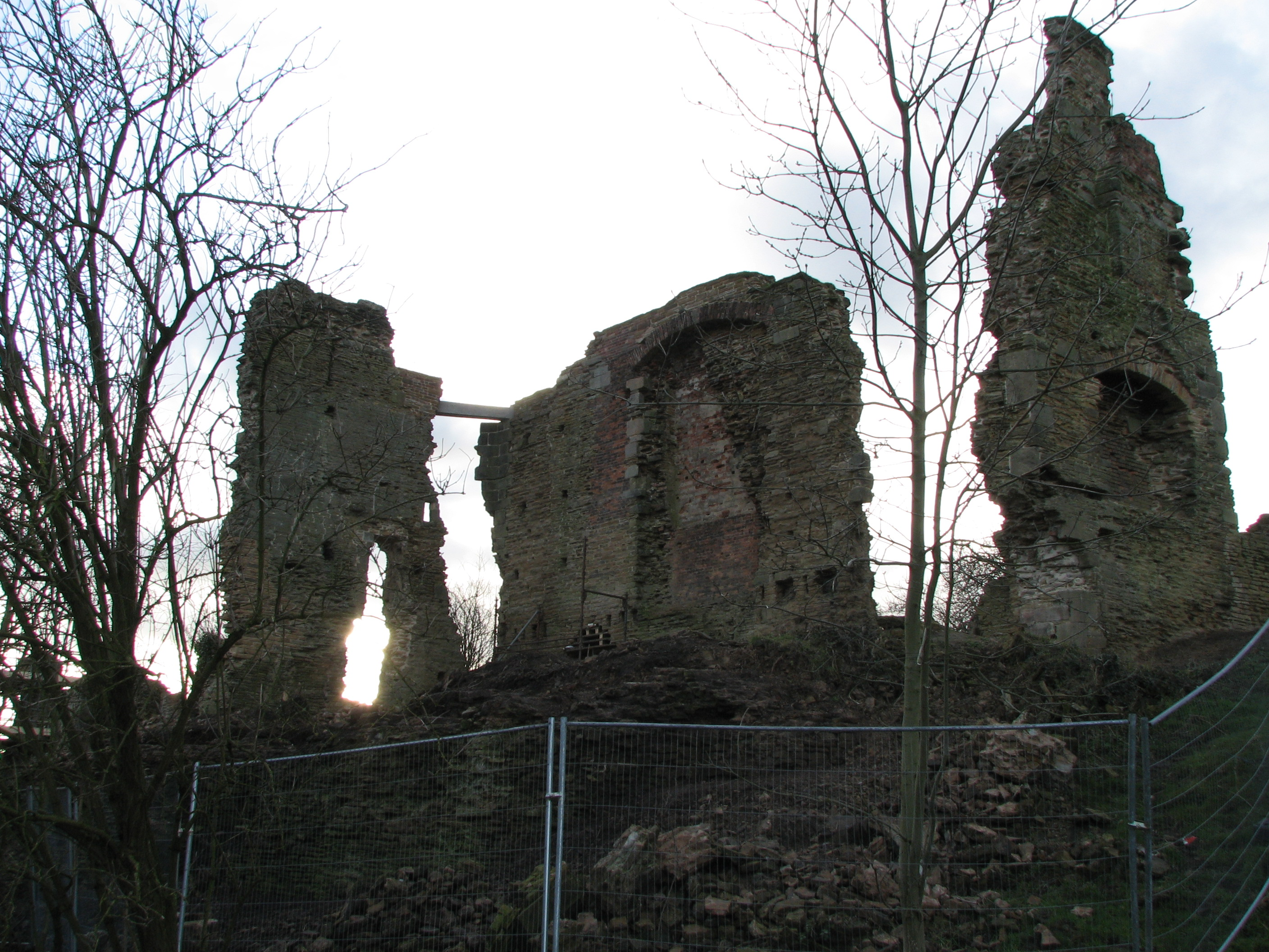 Codnor Castle ruins. View from NE.